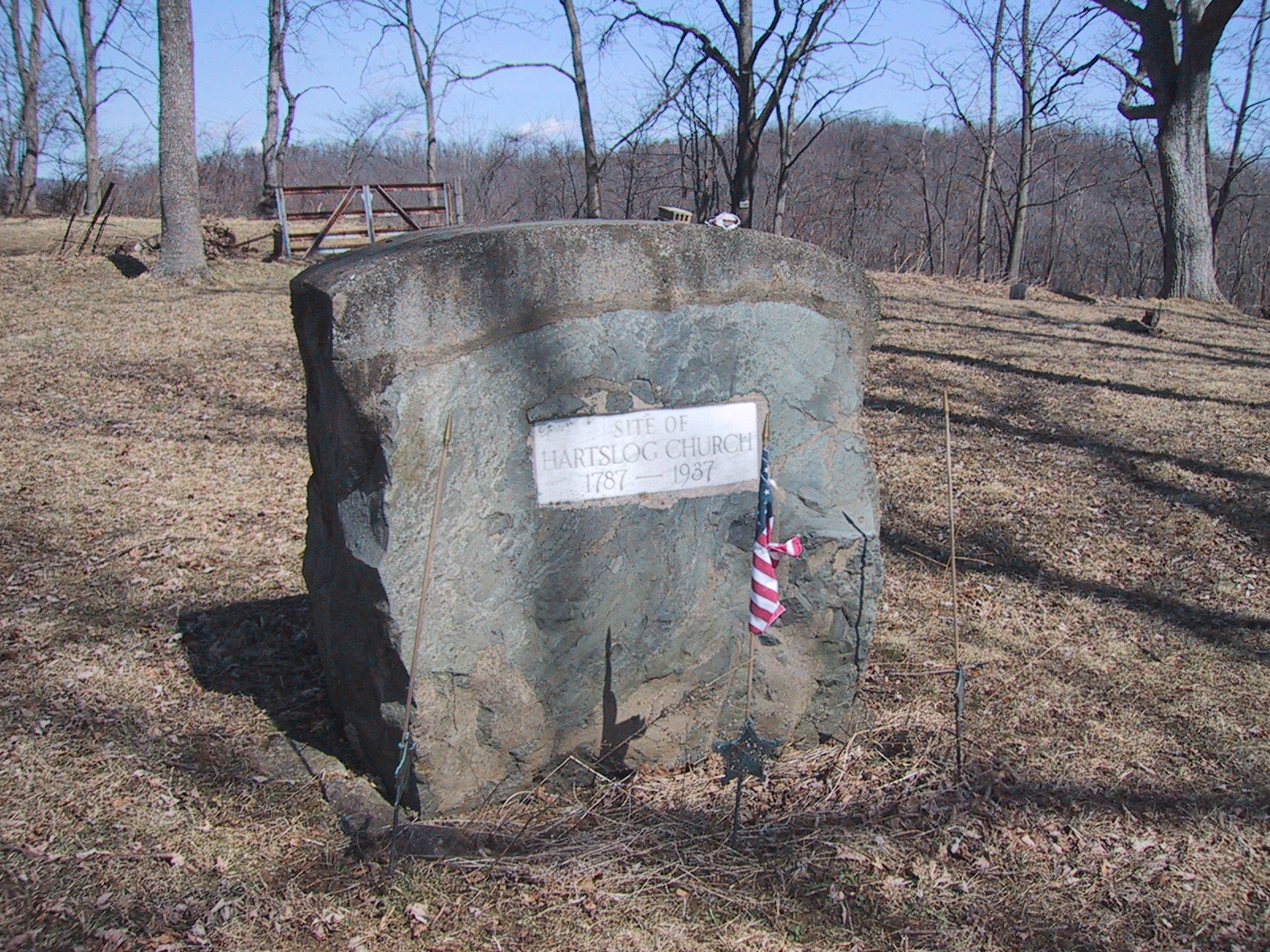 Old Hartslog Meetinghouse Monument